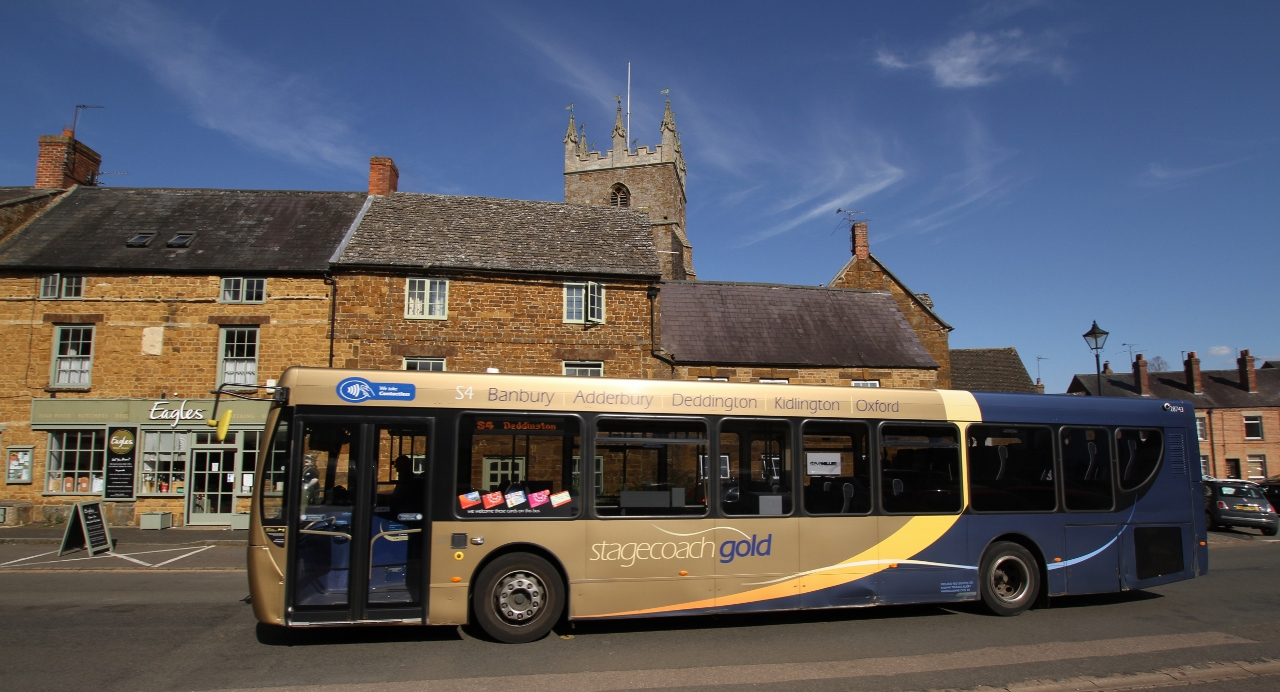 A Stagecoach in Oxfordshire bus on route S4 in Market Place, Deddington, Oxfordshire. The bus is a Scania K230UB with an Alexander Dennis Enviro300 body, registration mark YM15 FPN, fleet number 28743, in Stagecoach Gold livery.